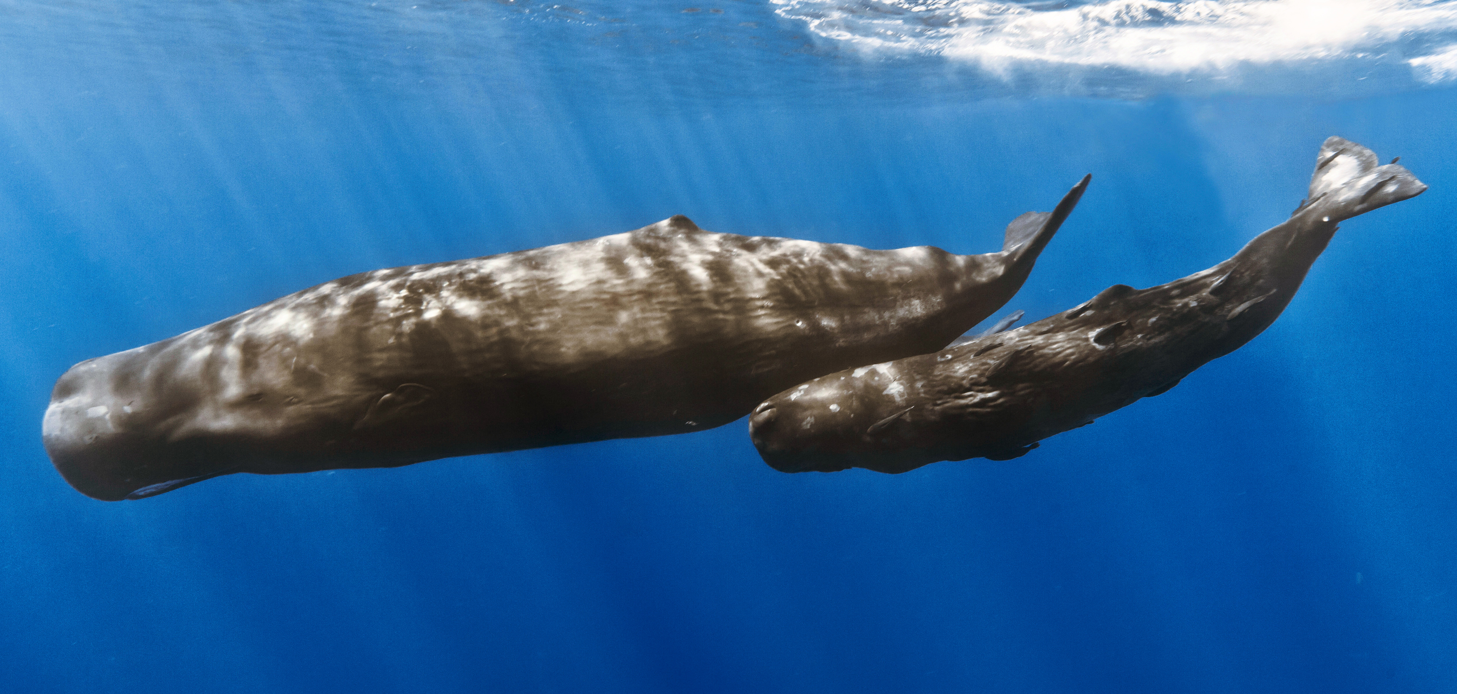 A sperm whale mother with her calf, photographed off the coast of Mauritius.